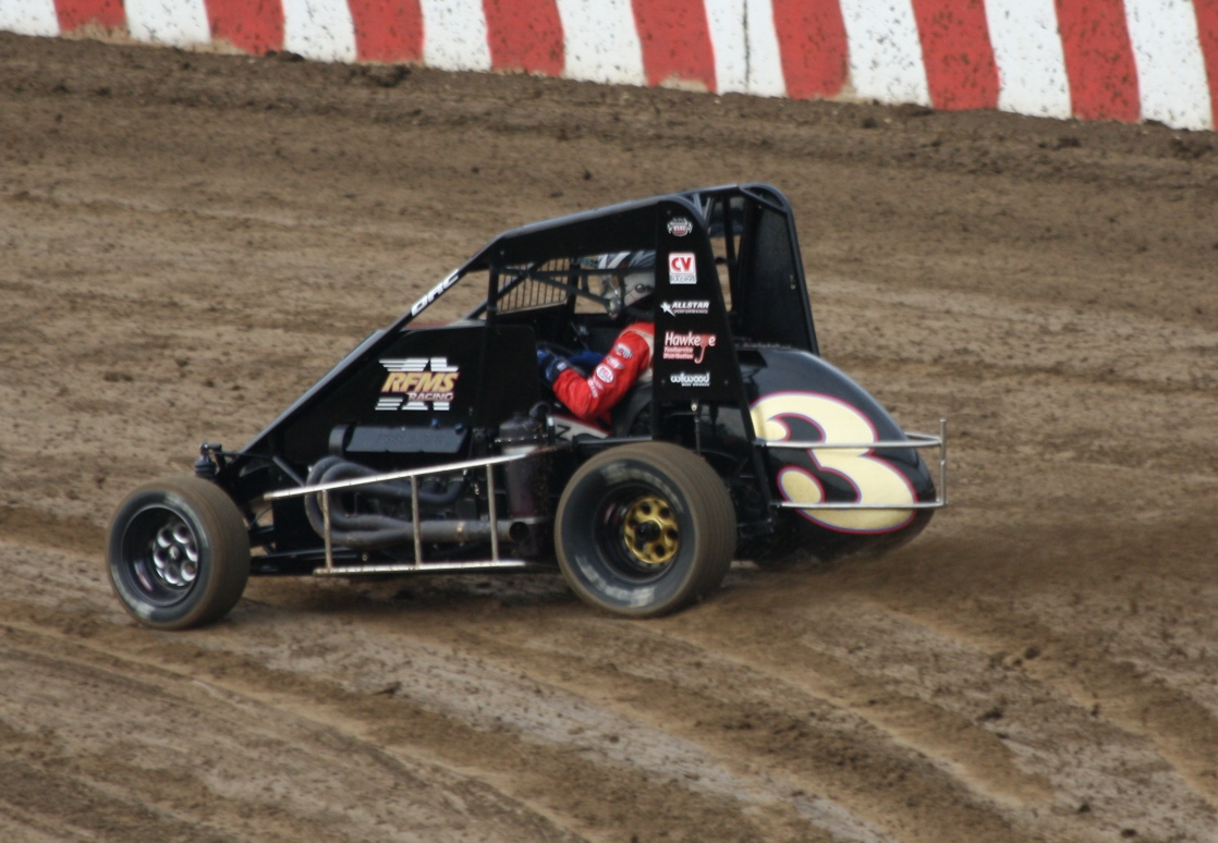 The USAC Midget car #3 of Darrell Hagen at Angell Park Speedway.